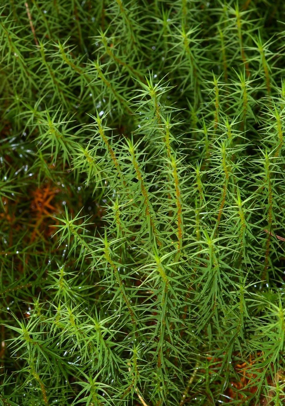 Common Hair Moss (Polytrichum commune) in a bog.